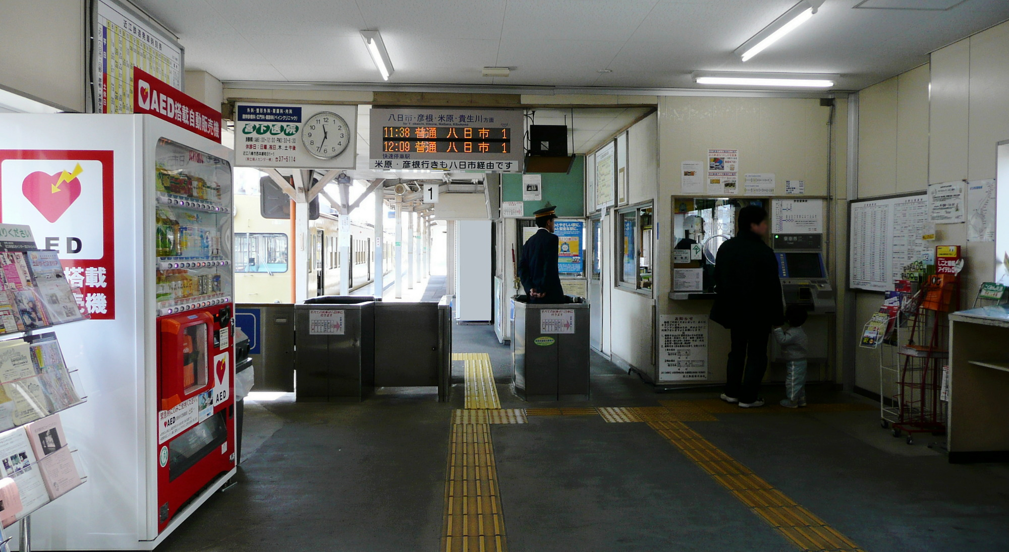 Ohmi Railway,Oumi-Hachiman Station gate. / 近江鉄道近江八幡駅改札口